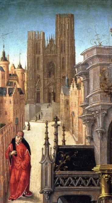 Detail of Pastoral Instruction by the Master of the View of Saint Gudula, showing the Saint Gudula Church of Brussels with the north tower still incomplete.